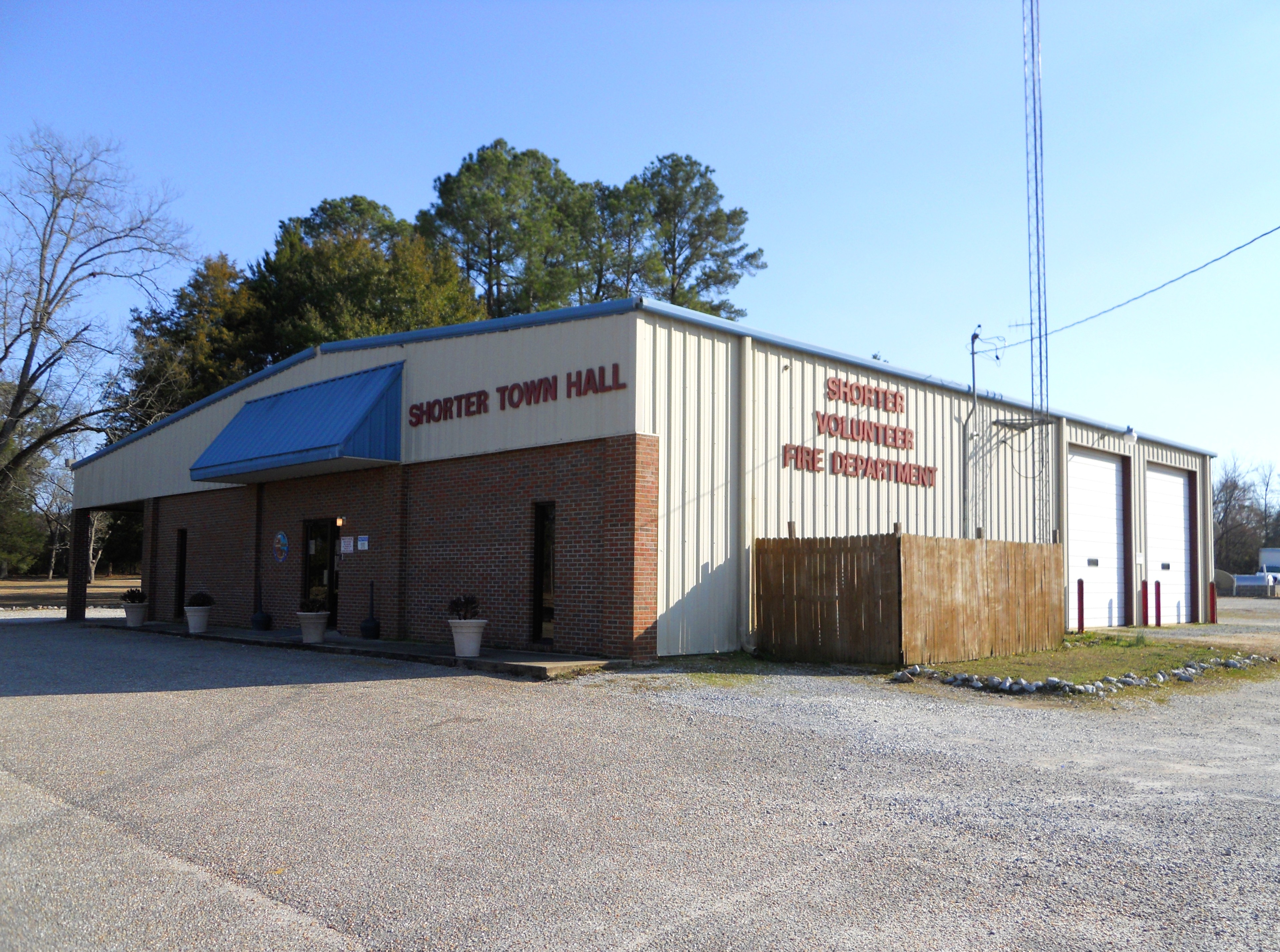 This is a photograph of the town hall and volunteer fire department in Shorter, Alabama.